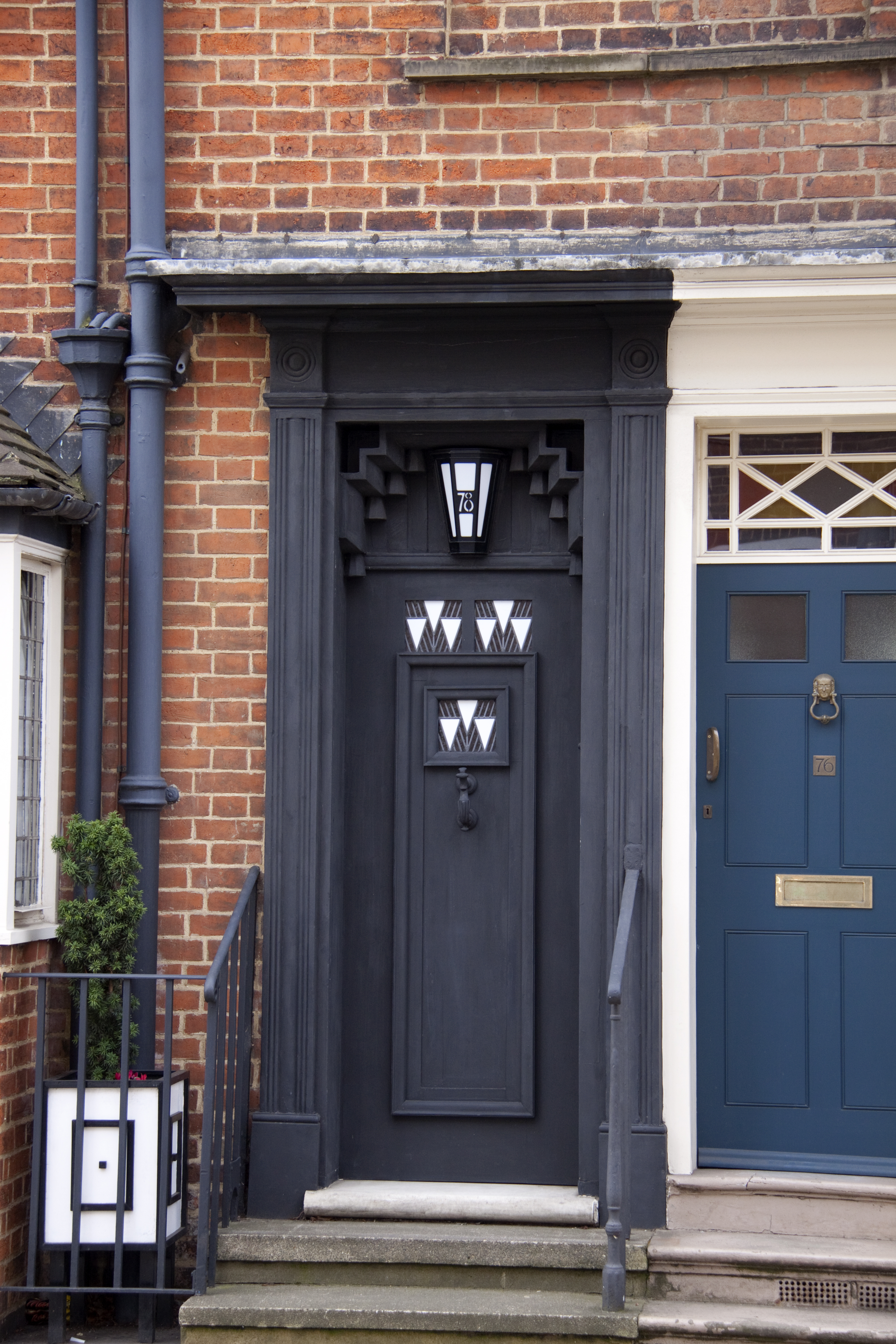 78 Derngate, Northampton was an ordinary early 19th Century terraced house. Its claim to fame starts when in 1916 Wenman Joseph Bassett-Lowke asked Charles Rennie Mackintosh to re-design the house. The house is now part of a museum incorporating no 80 and 82 Derngate.